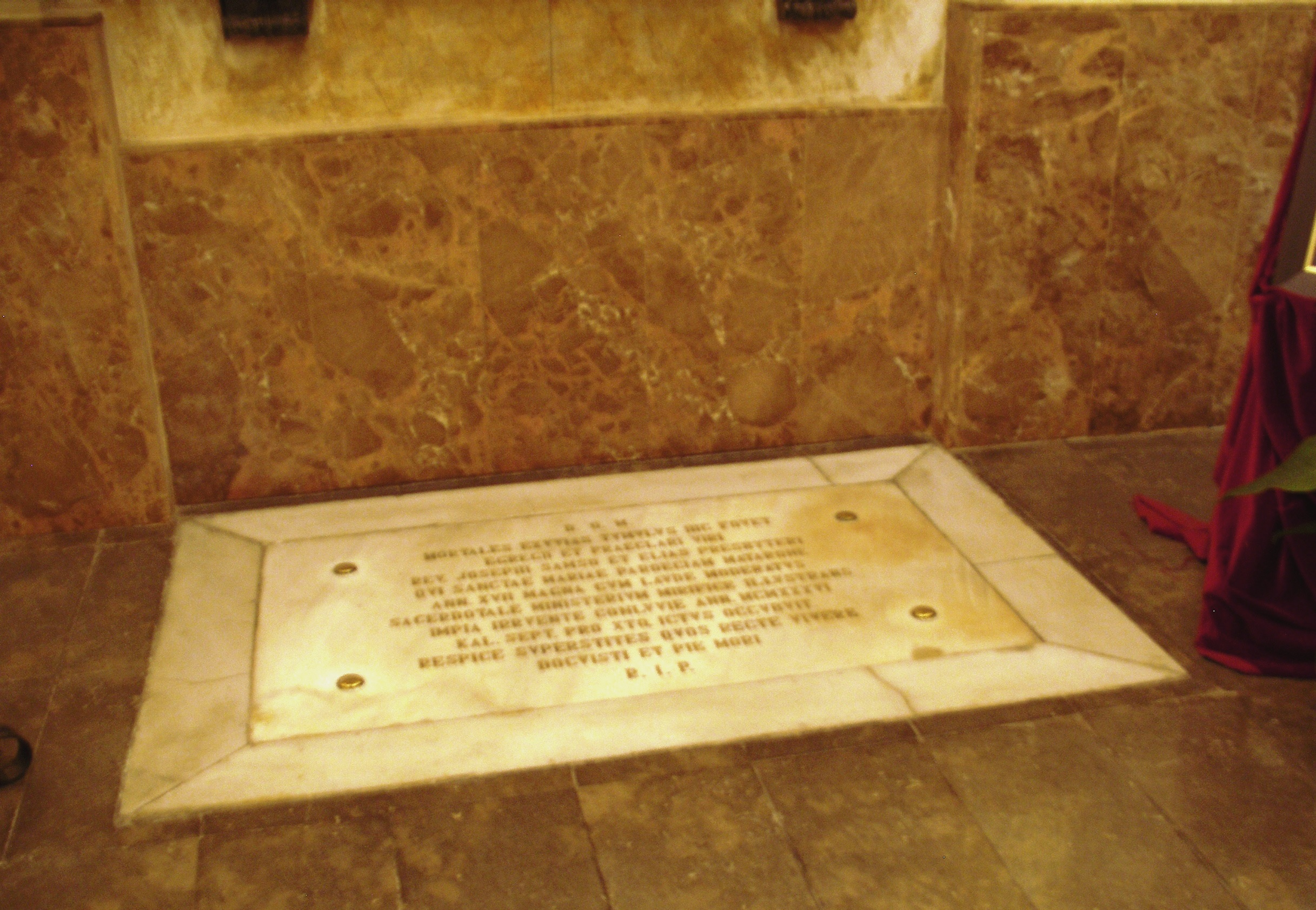 Tomba del beat J. Samsó a la Basílica de Santa Maria de Mataró